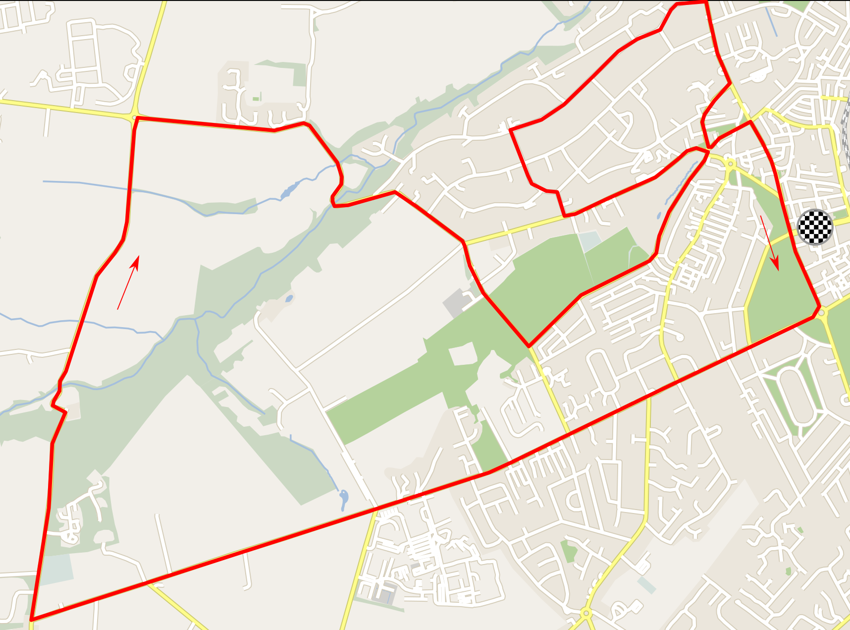 Map of the urban circuit at UCI Road World Championships 2019